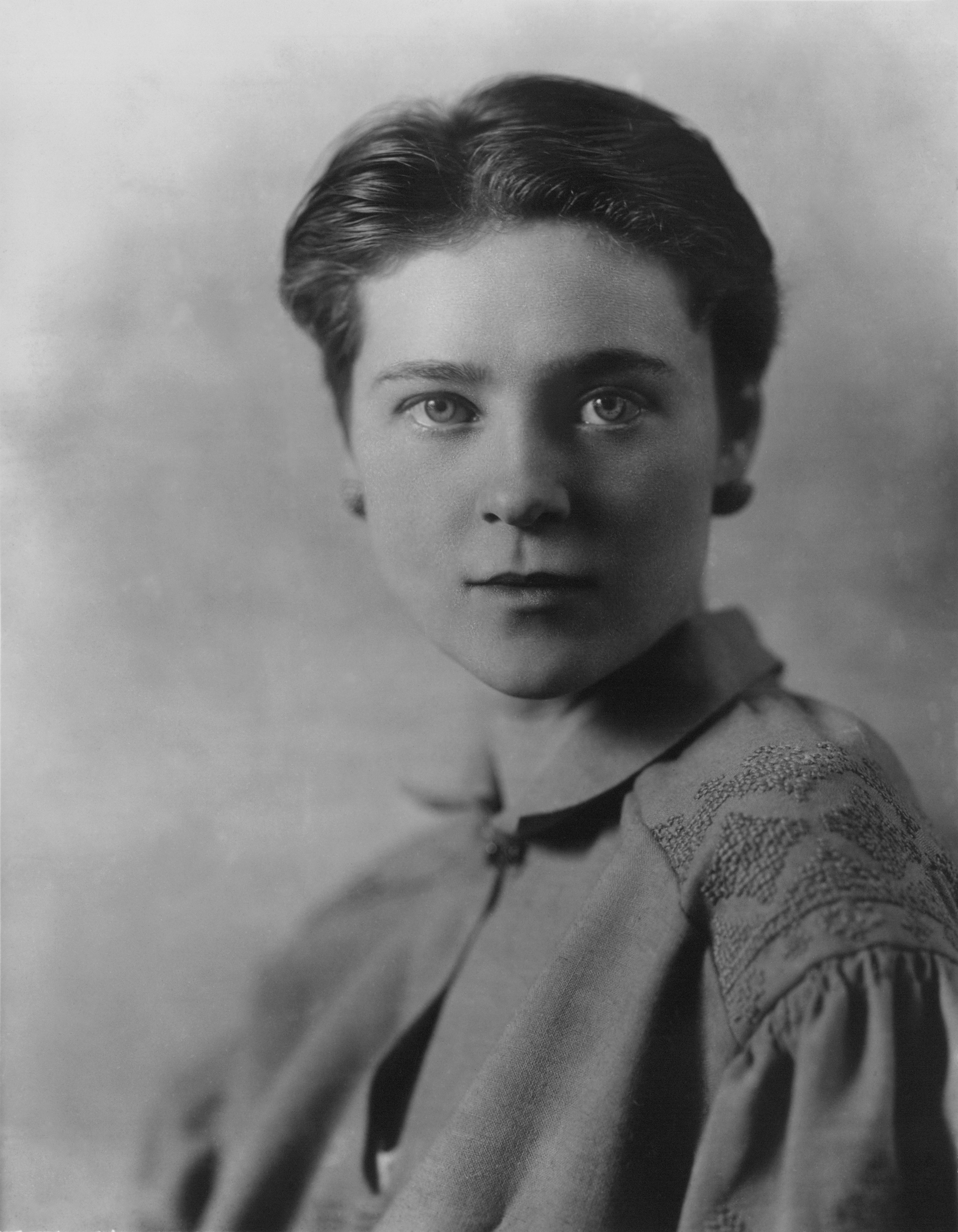 Eva Le Gallienne, Chrmn. - Actresses Council National Advisory Council - NWP Subject Headings National Woman's Party Suffragists--United States--1910-1920 Women--Suffrage--New York (N.Y.) Women's rights--United States Le Gallienne, Eva, 1899- Actors and Actresses Photographs United States -- New York -- New York